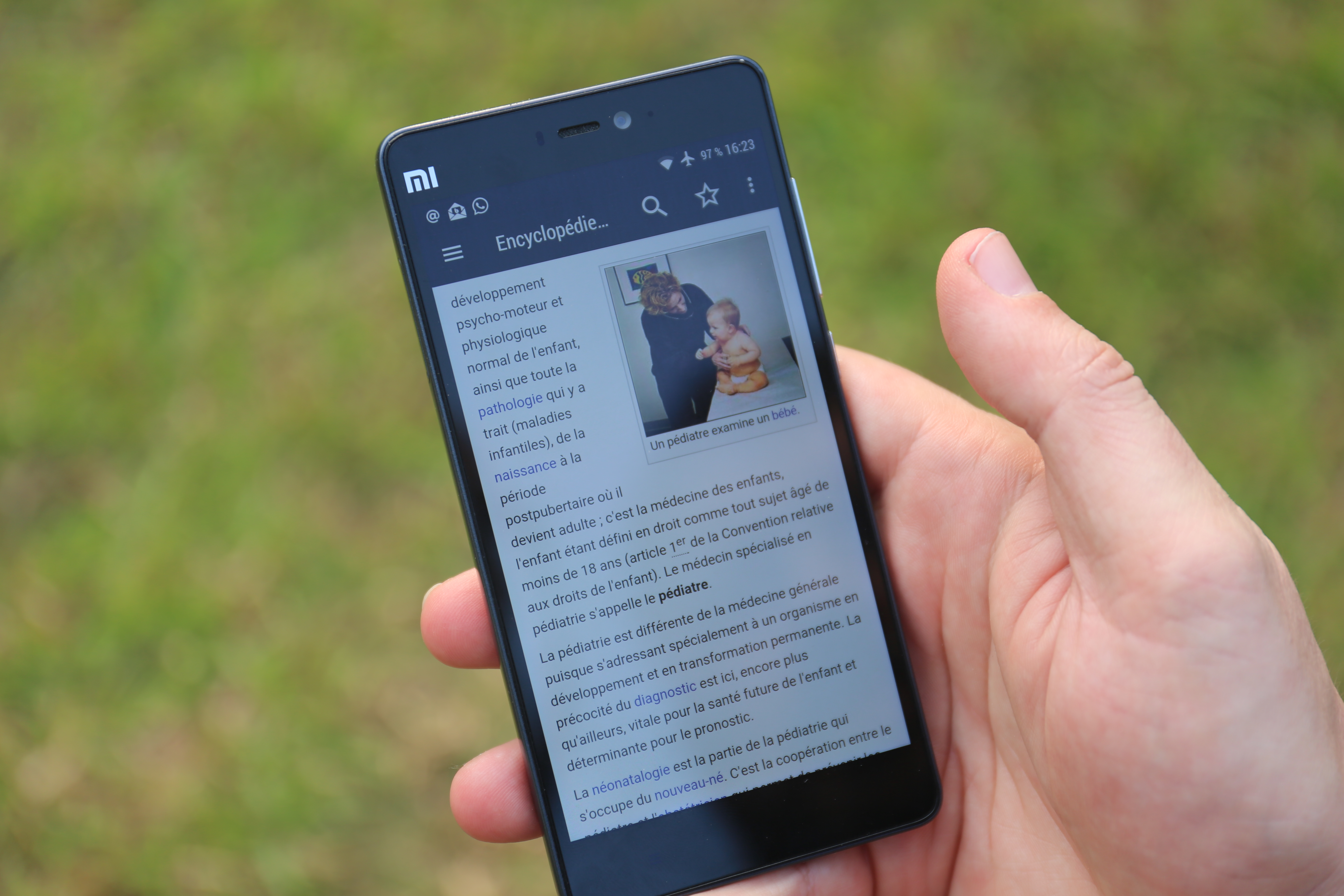 A detailed view of a Kiwix page